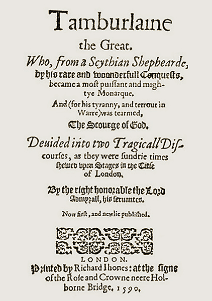 Title page of a 400-year-old play by English playwright Christopher Marlowe.